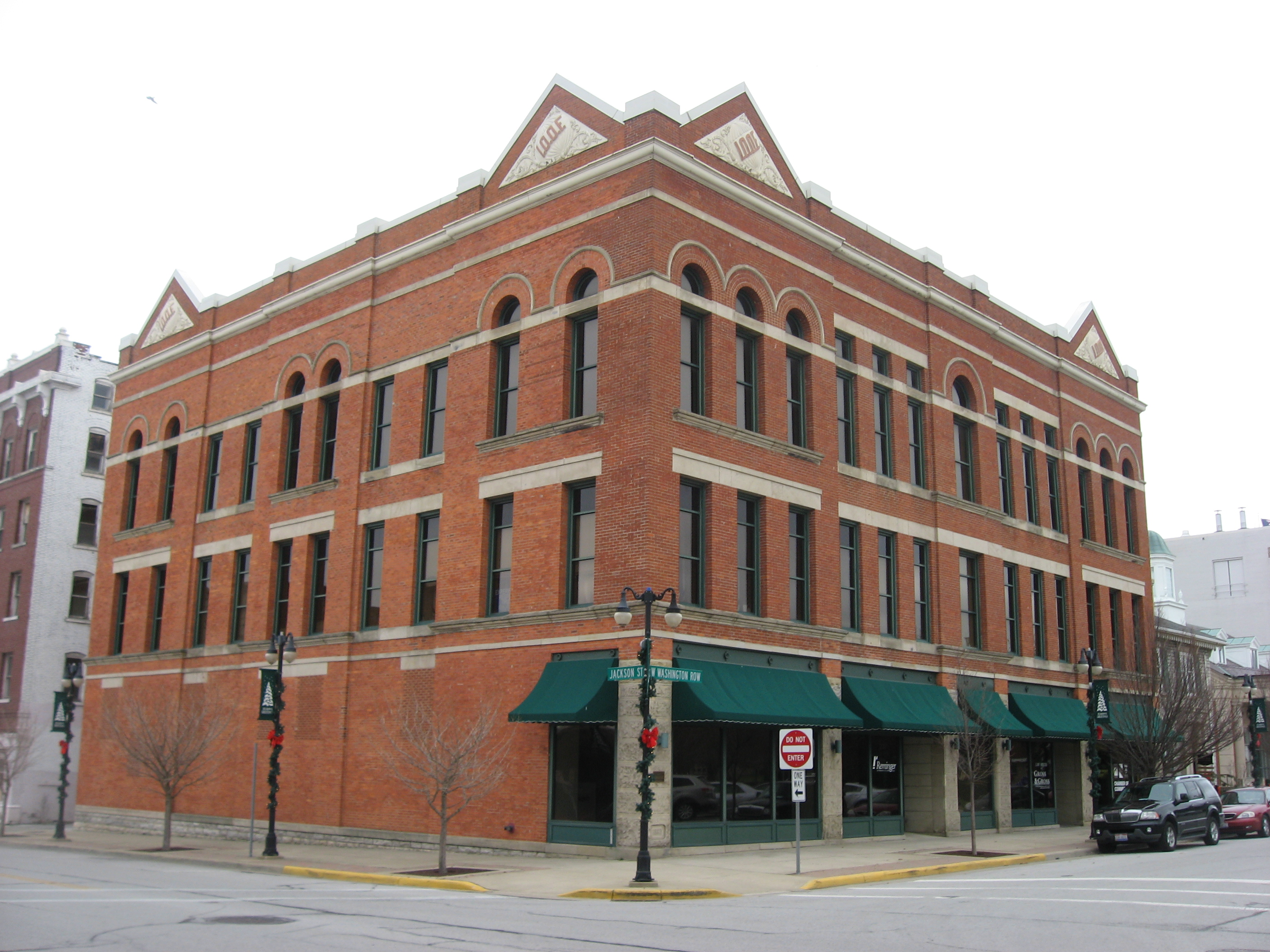 Front and western side of the Independent Order of Odd Fellows Temple, located at 231 W. Washington Road in Sandusky, Ohio, United States. Built in 1889, it is listed on the National Register of Historic Places.